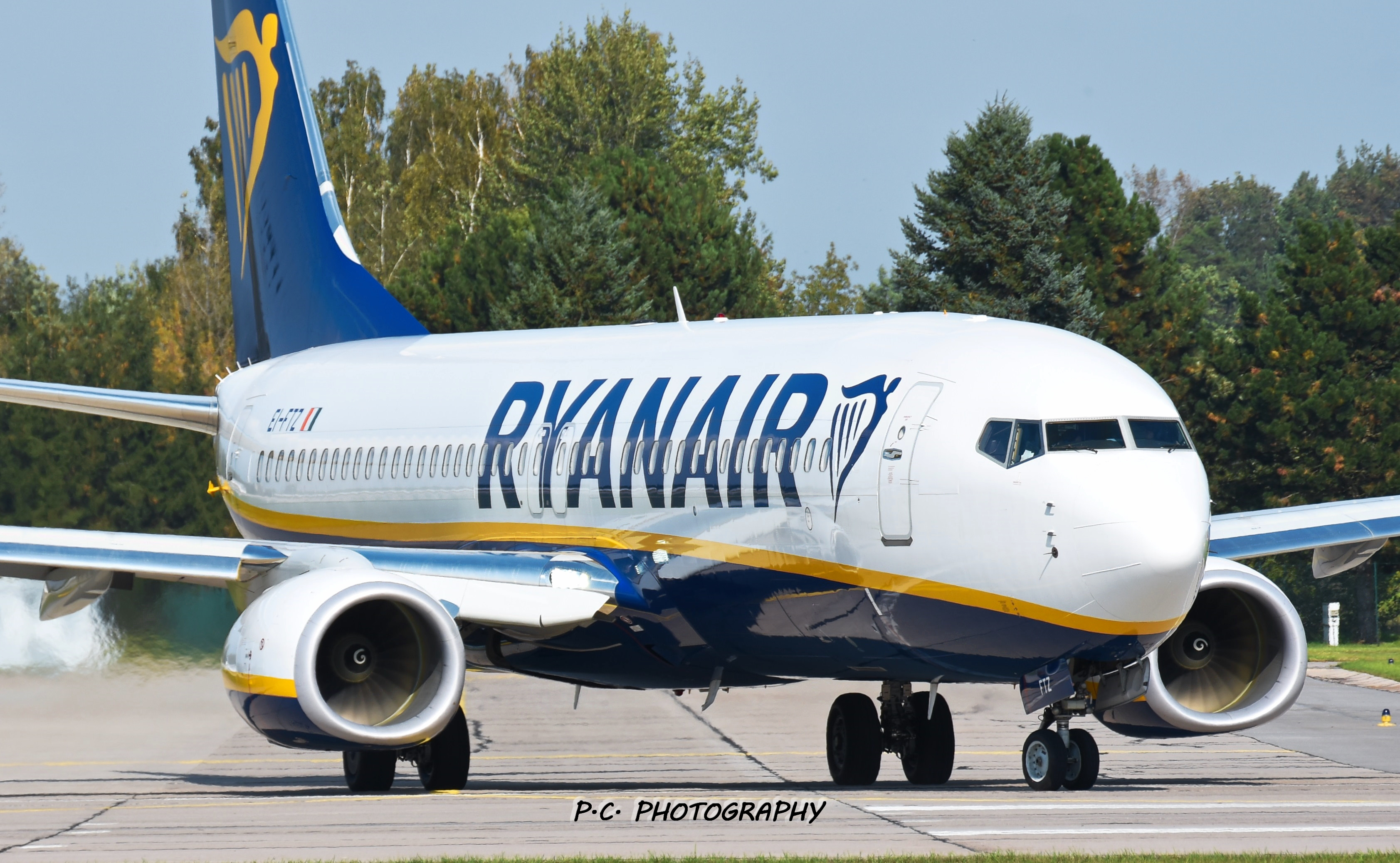 Boeing 737-800 of Ryanair at Pardubice Airport entering the runway